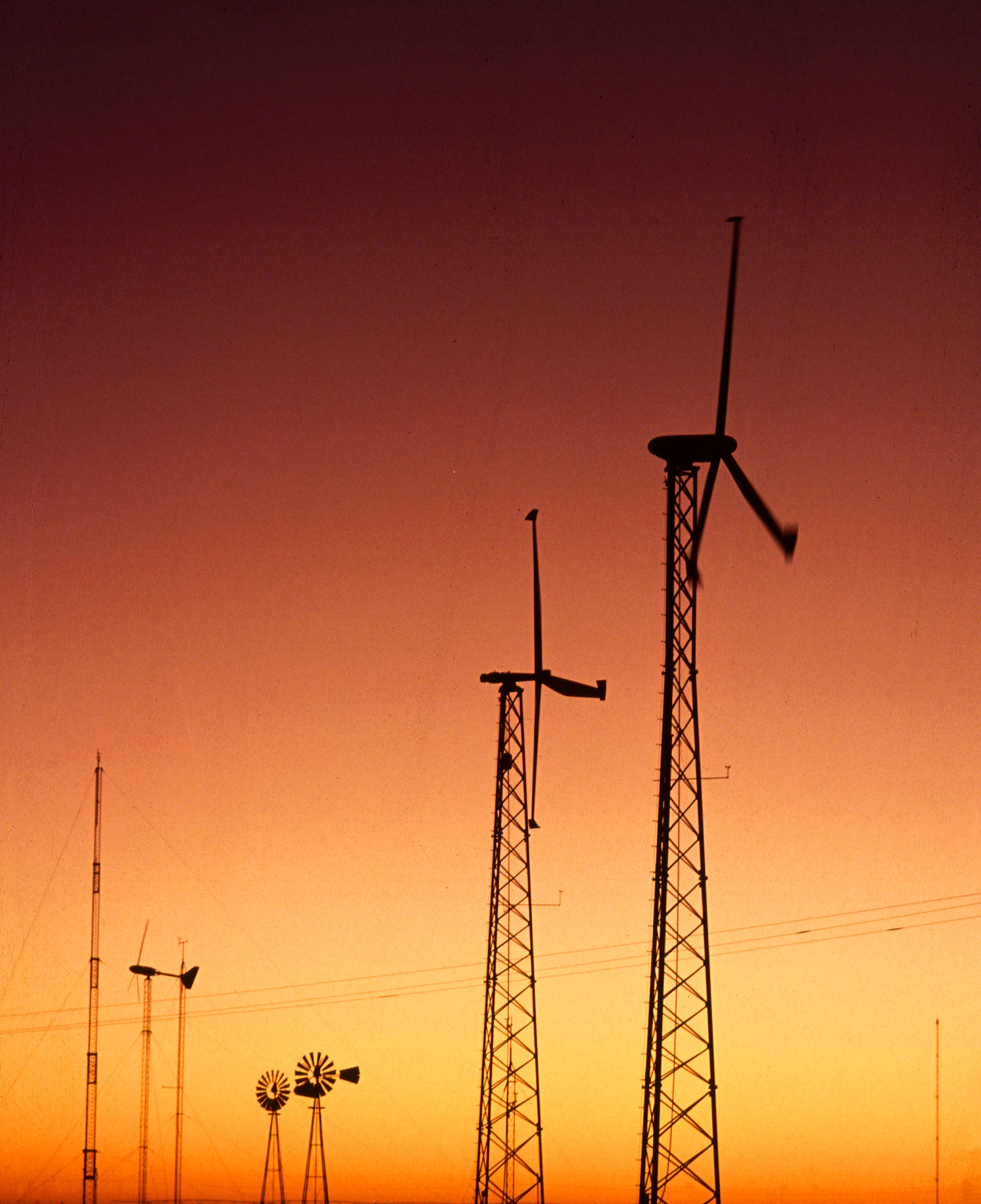 At the USDA-ARS Conservation and Production Research Laboratory in Bushland, Texas, wind turbines generate power for submersible electric water pumps that are far more efficient than traditional windmills (background).